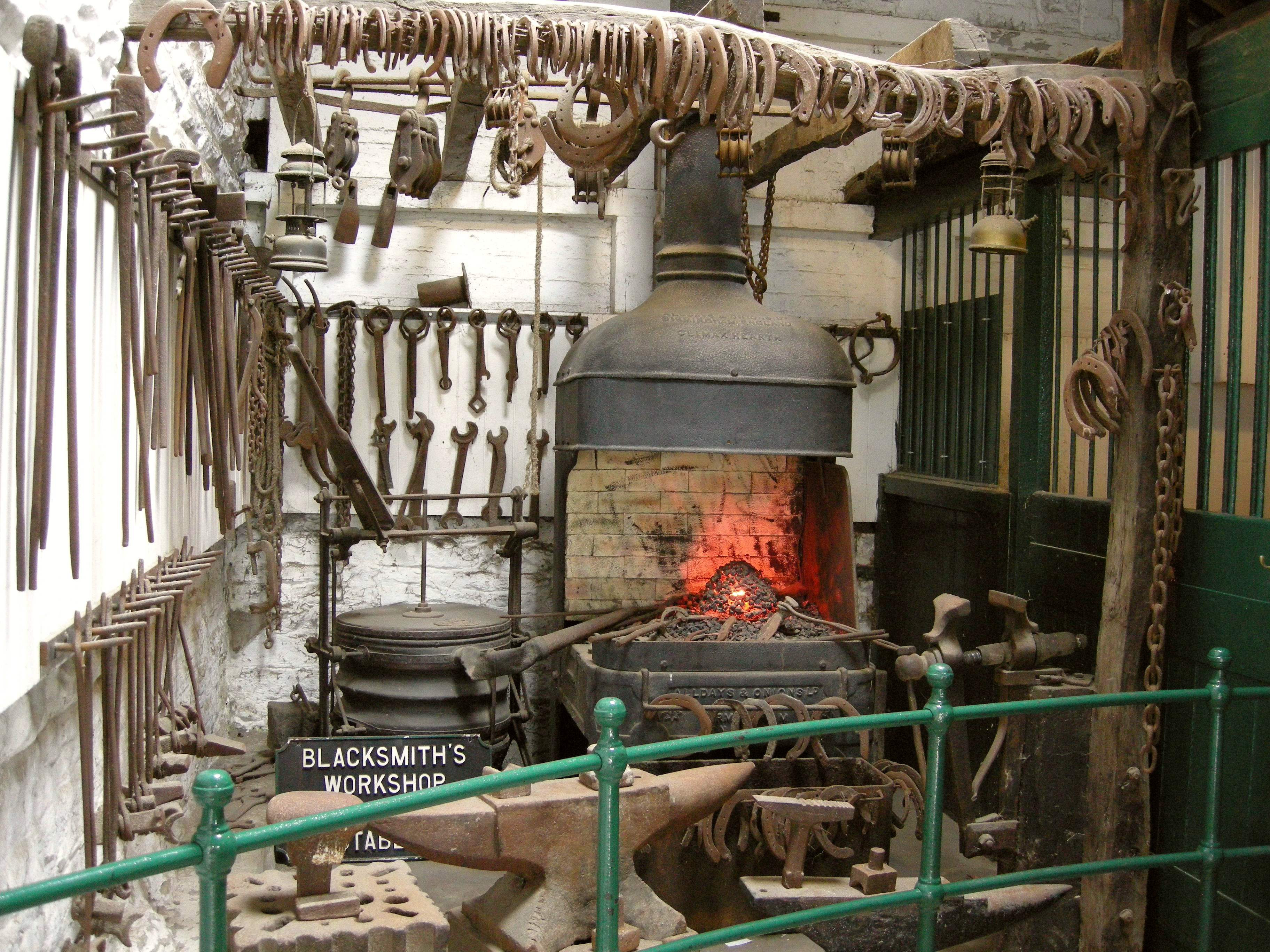 Blacksmith's workshop display, Bradford Industrial Museum, Bradford, West Yorkshire, England.